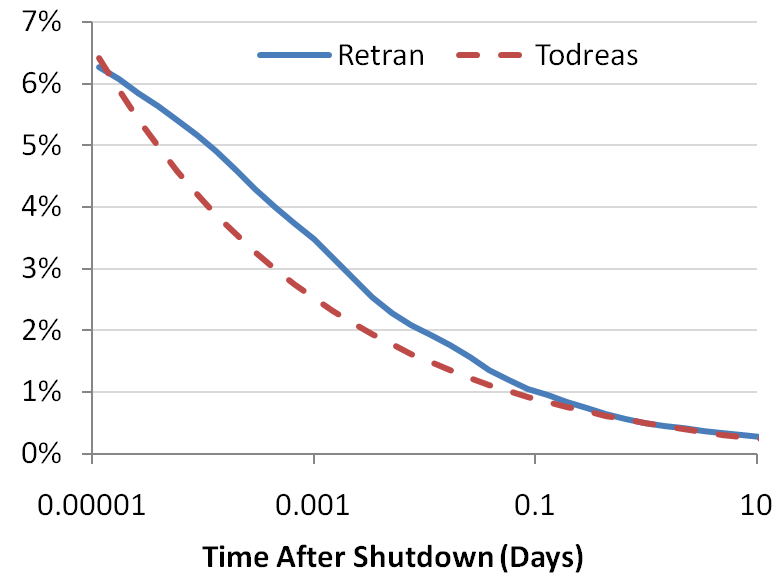 Graph of Decay heat as fraction of full power from a SCRAMed operating power reactor. Two models are displayed in the graph, one being Retran, which uses a 11 group exponential decay, the other being Todreas and Kazimi from published work in 1990, which was adapted from previous empirical correlations. The Retran model inputs no assumptions of operating history, and the Todreas model requires the operating time before shutdown, which was assumed to be 2 years for this application.